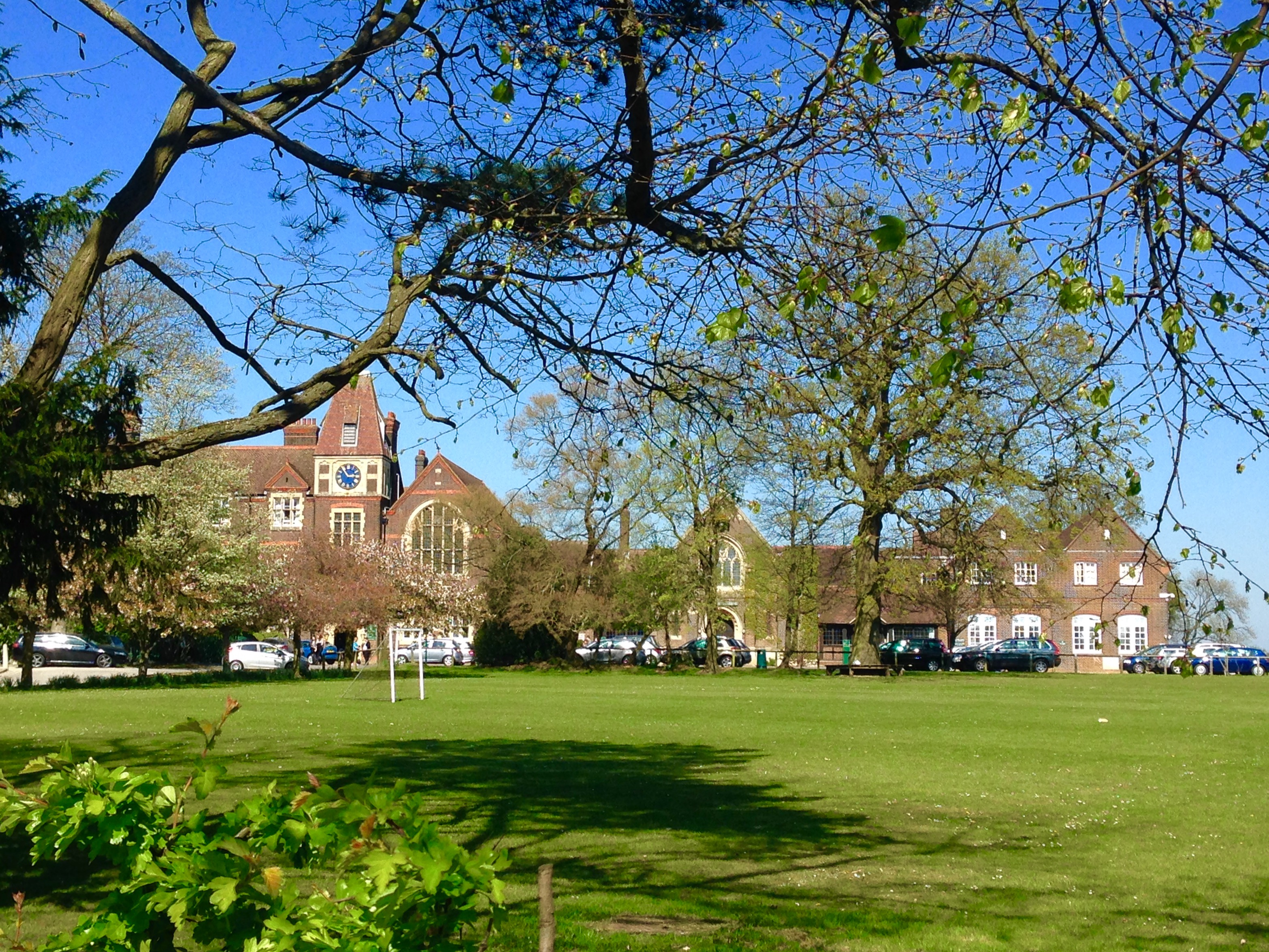 St George's School in Harpenden during Spring.